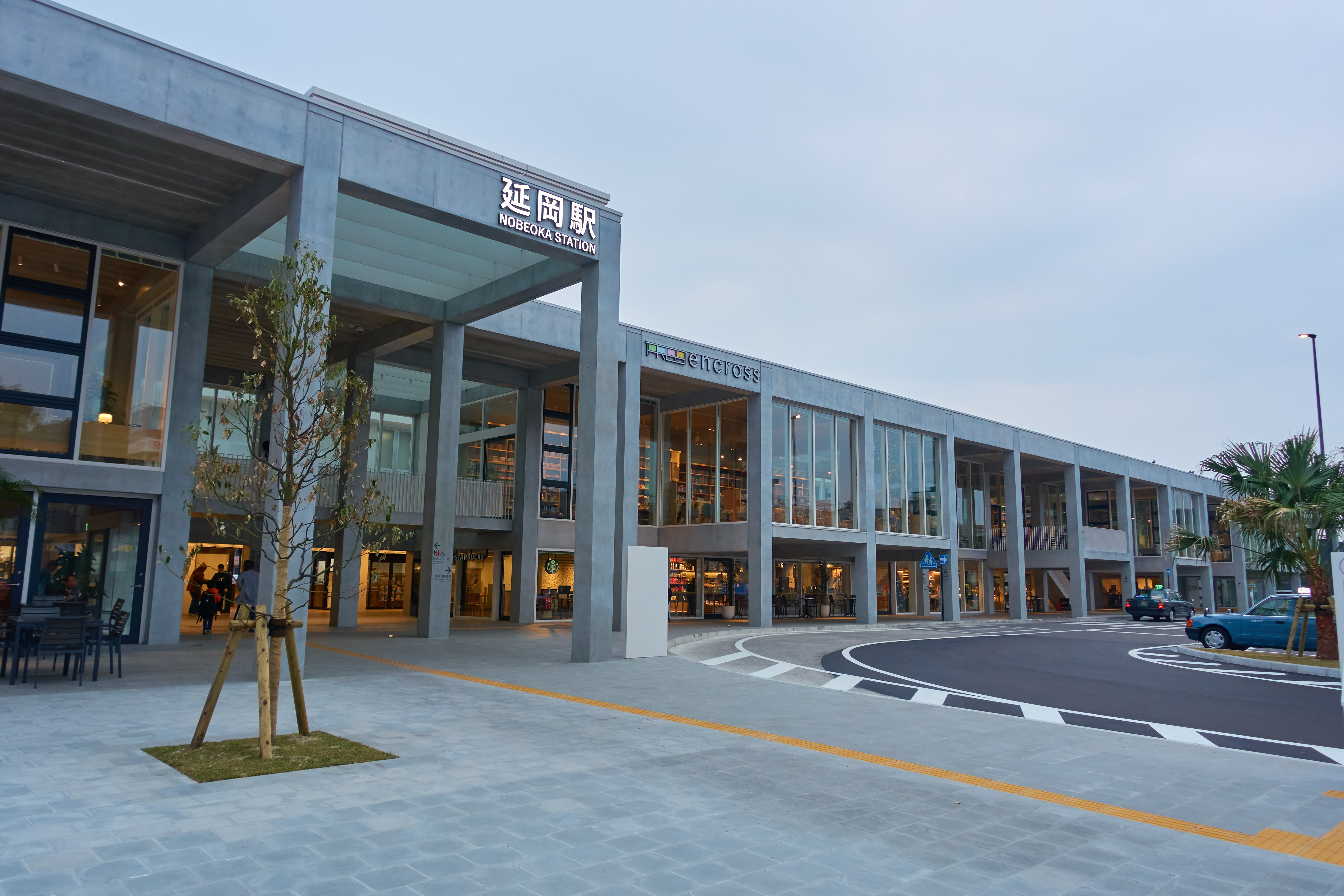 Nobeoka station and Encross complex facility in Nobeoka city, Miyazaki pref., Japan.